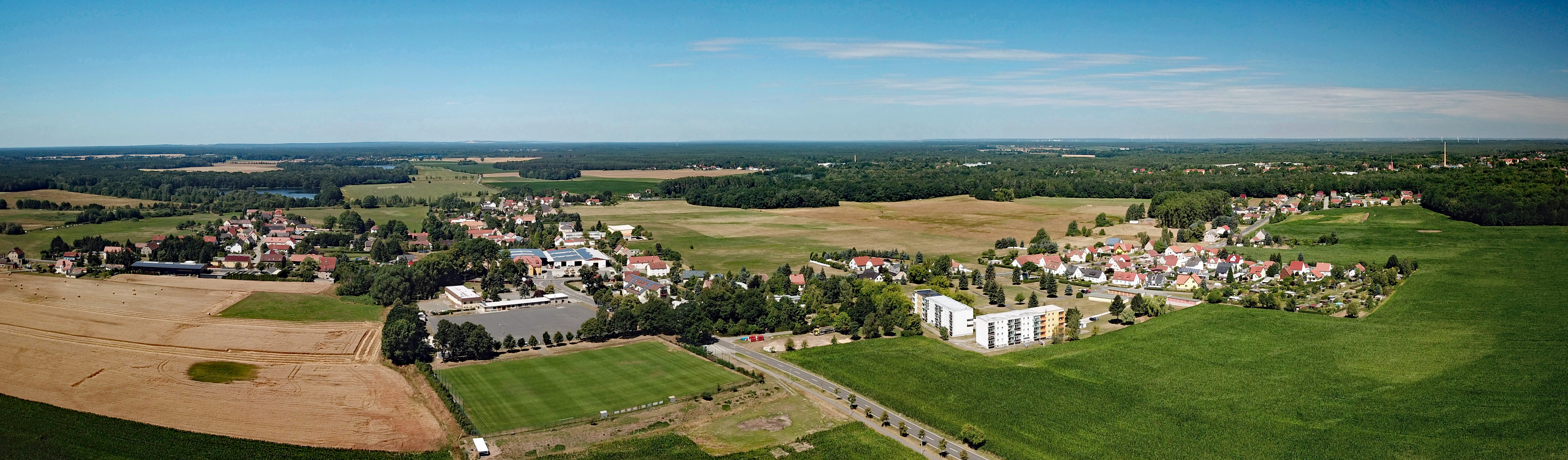 Straßgräbchen (Bernsdorf OL, Saxony, Germany)